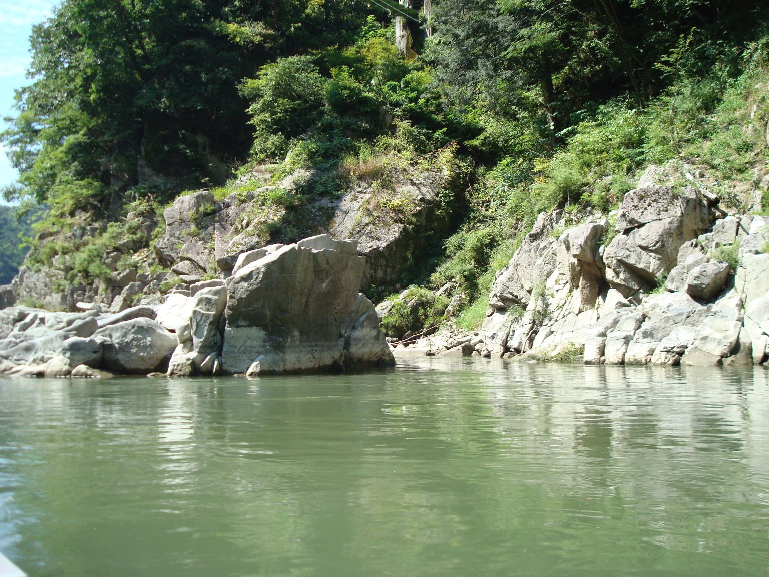 Fuyodo rock of Tenryukyo at Iida, Nagano, Japan.